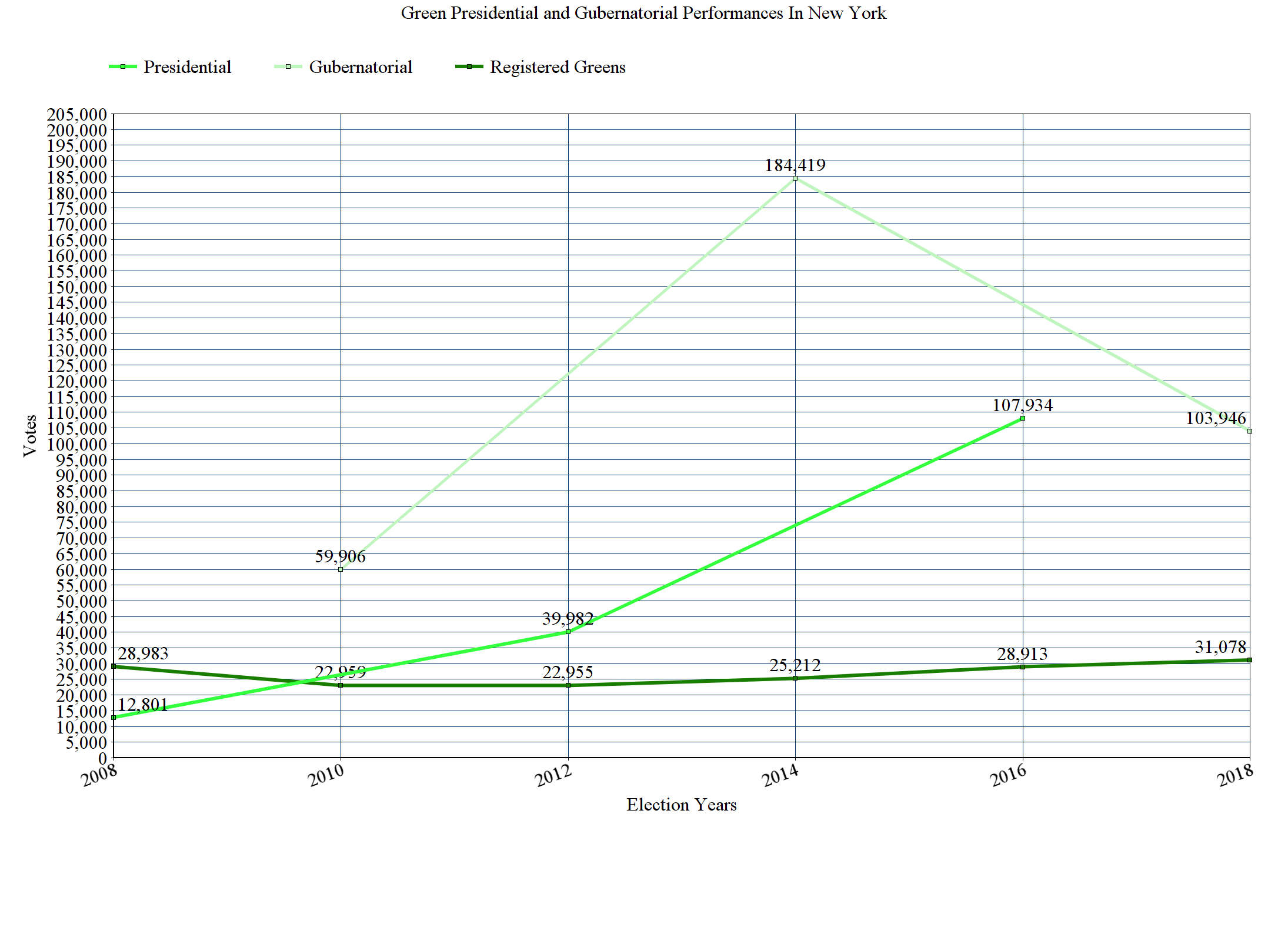 Green Presidential, Gubernatorial, and registered voter totals in New York.